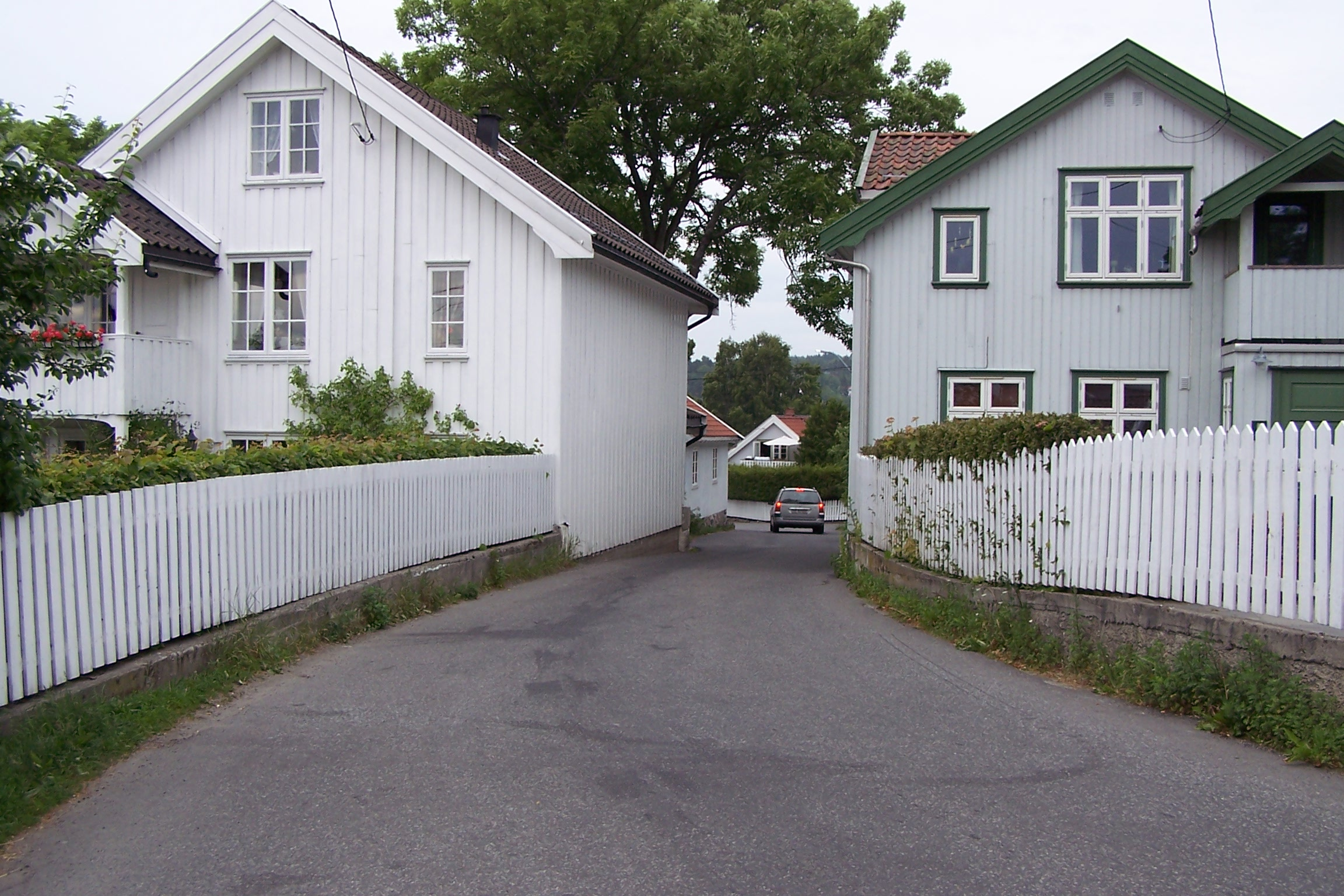 Son, Norway: Storgata